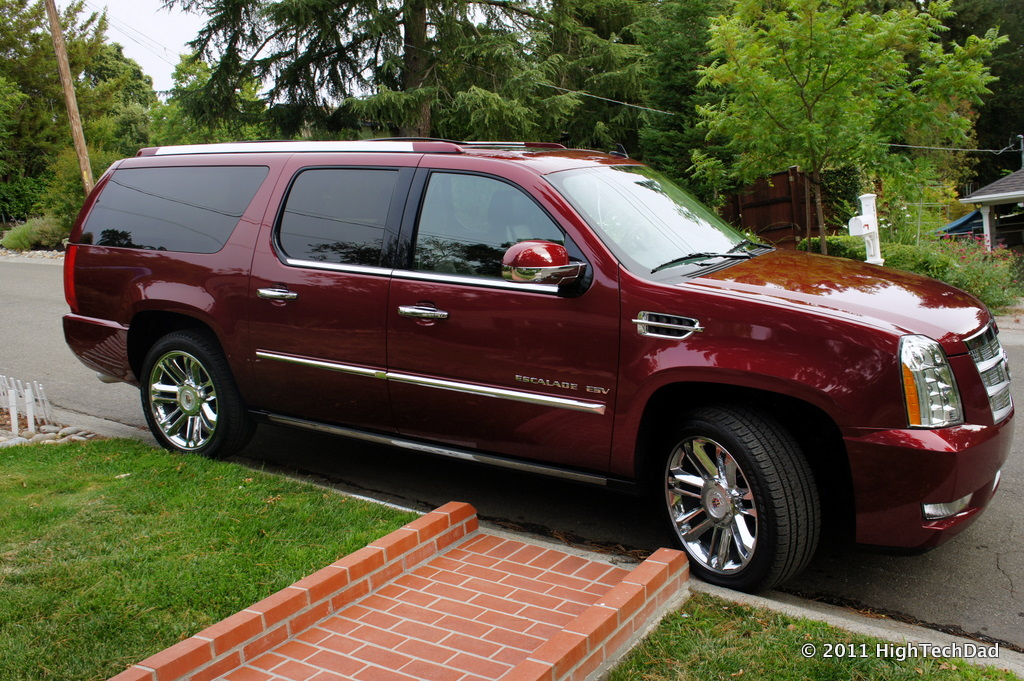 Pictures from a 7-day test drive of the 2011 Cadillac Escalade ESV Platinum Edition. More details and a video can be found at